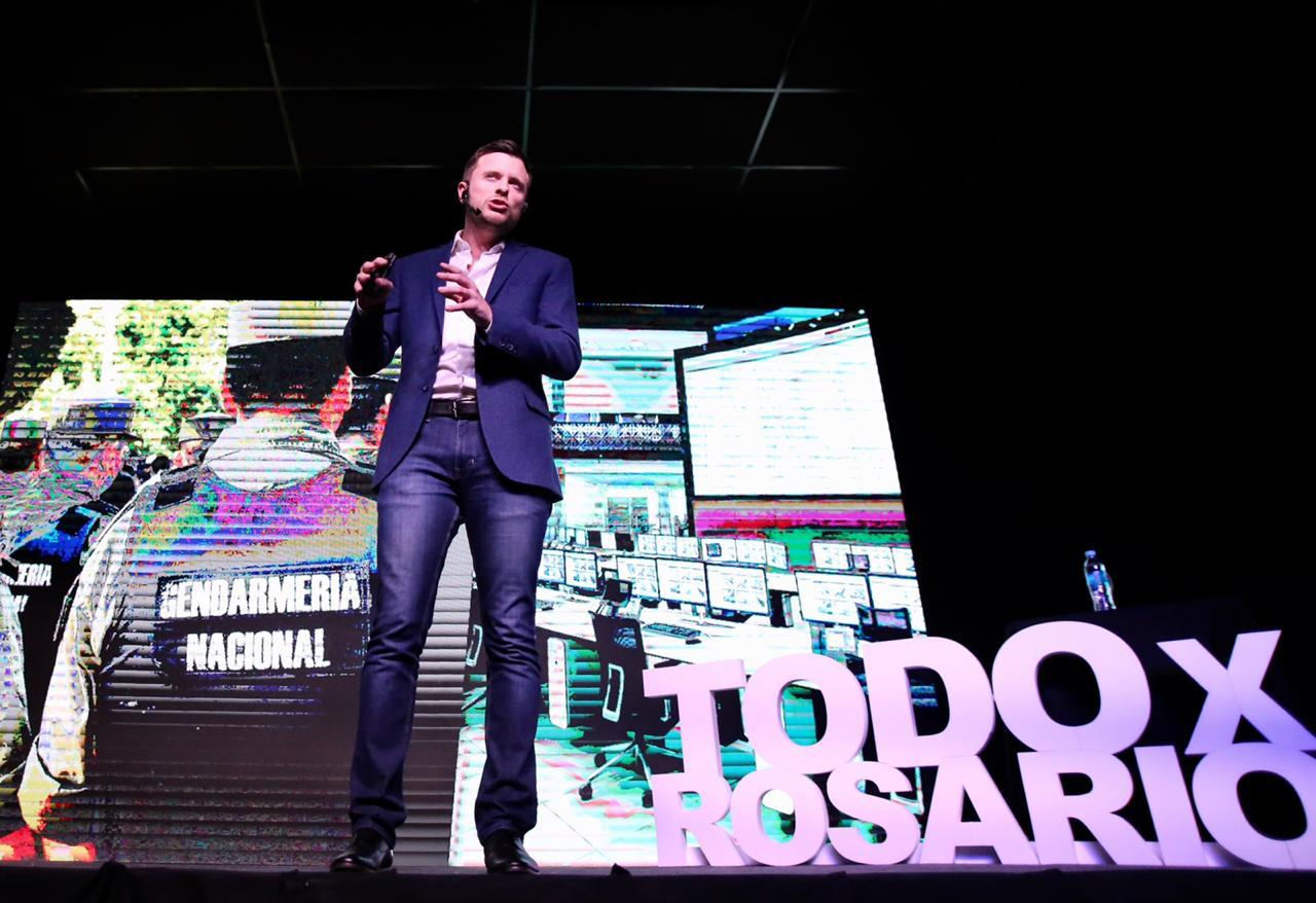 TodoxRosario Expo